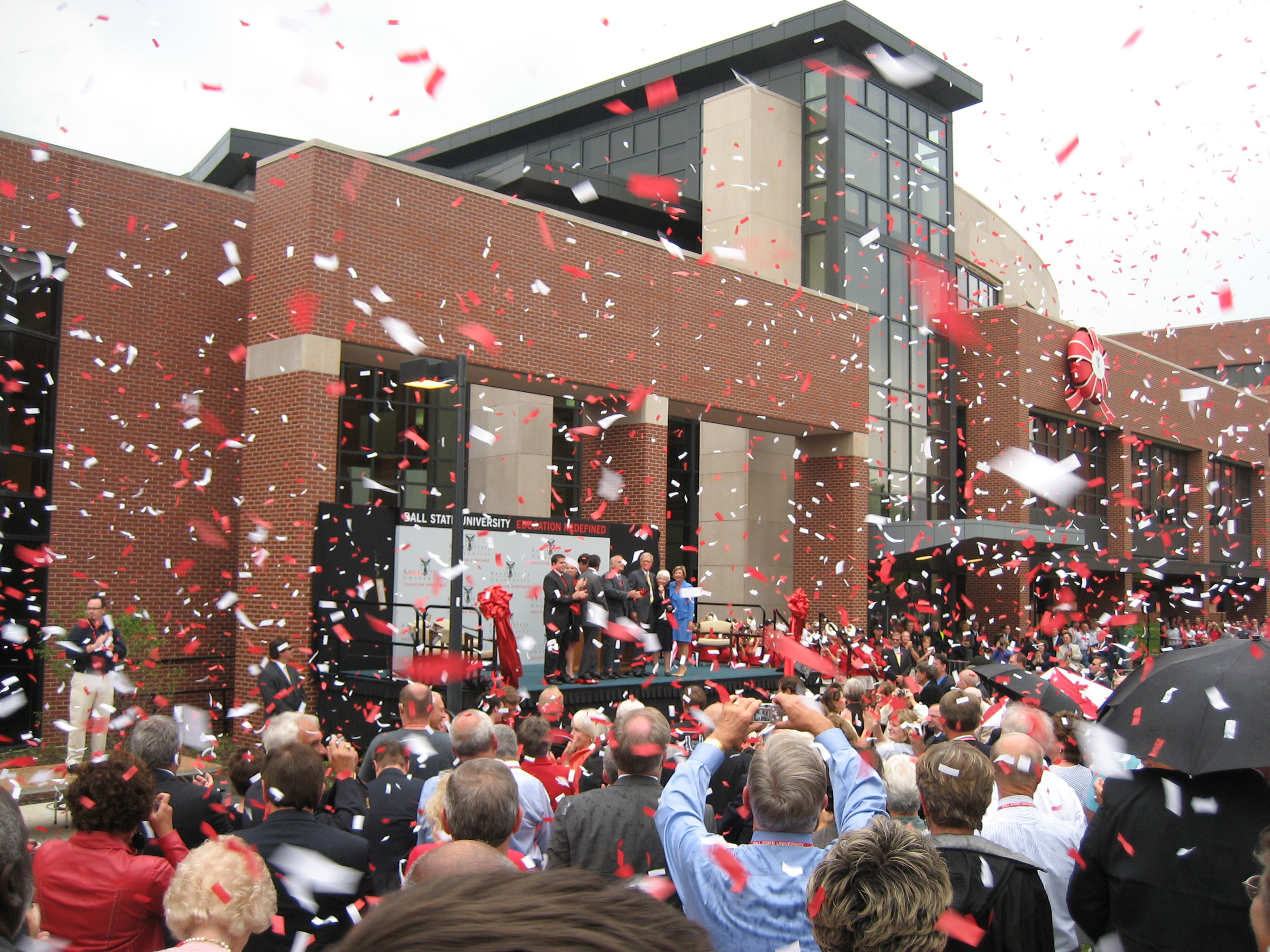 Grand Opening of the David Letterman Communication and Media Building, BSU.